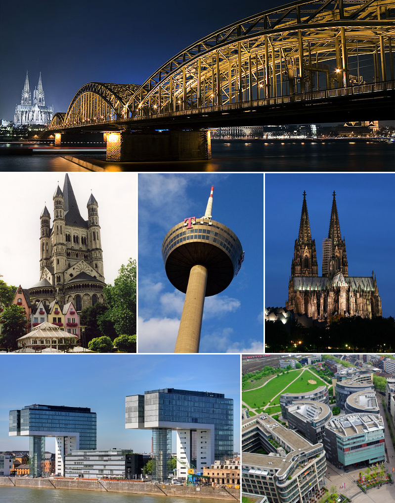 Photo montage of various famous landmarks in Cologne, Germany.